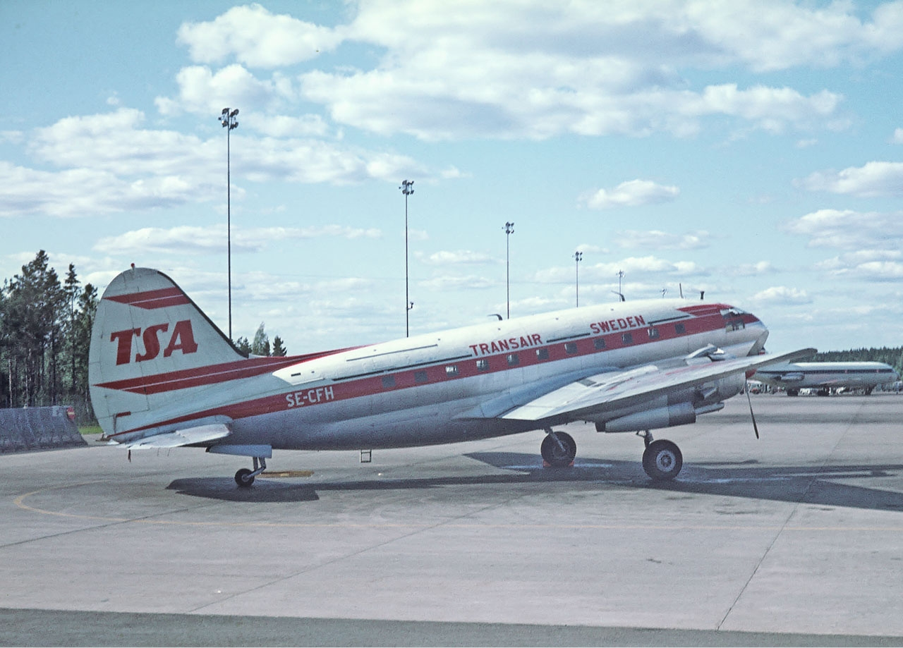 Transair Sweden Curtiss (Smith) C-46C Commando